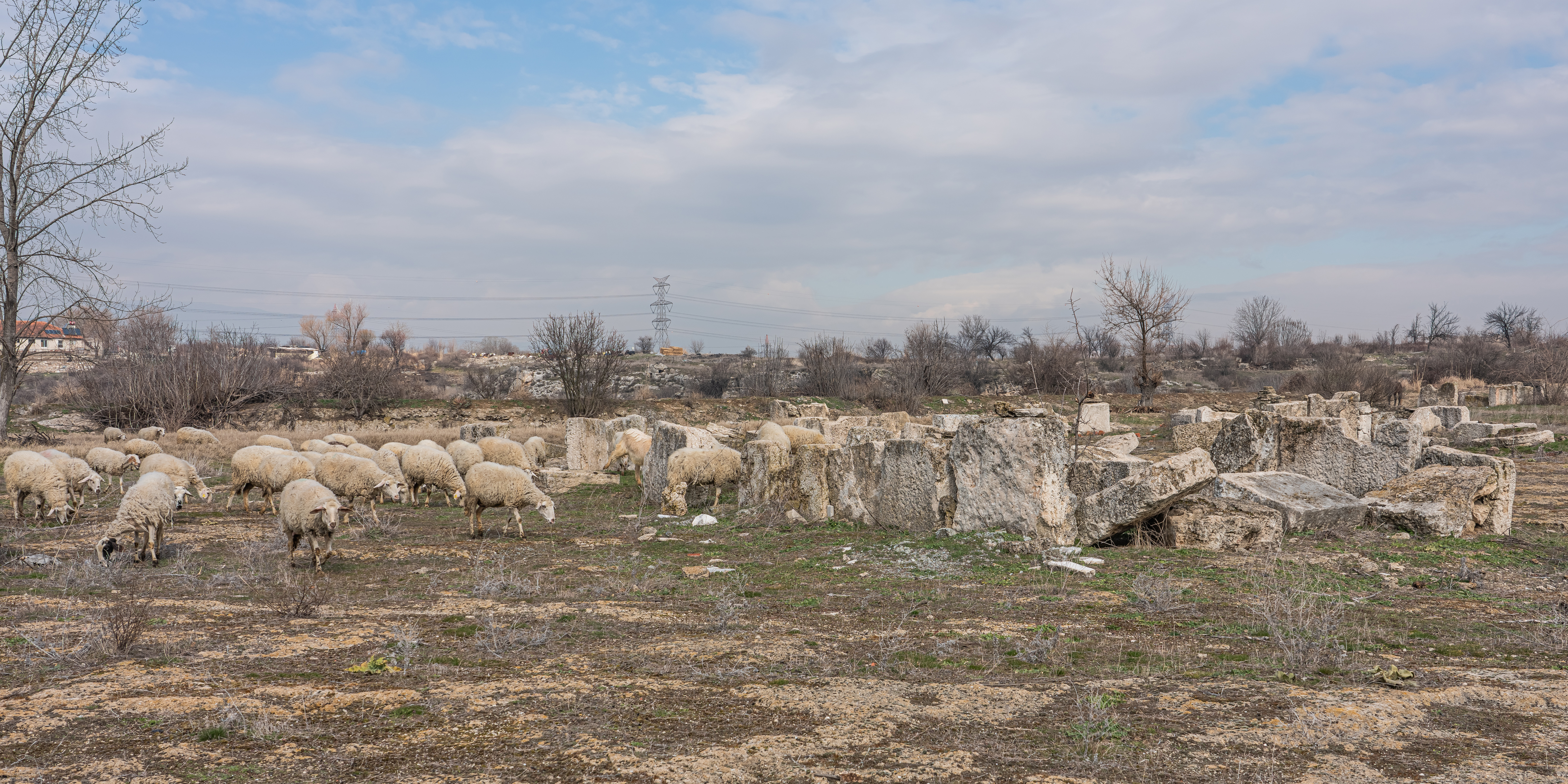 Remains of the ancient city of Colossae near Denizli, Turkey